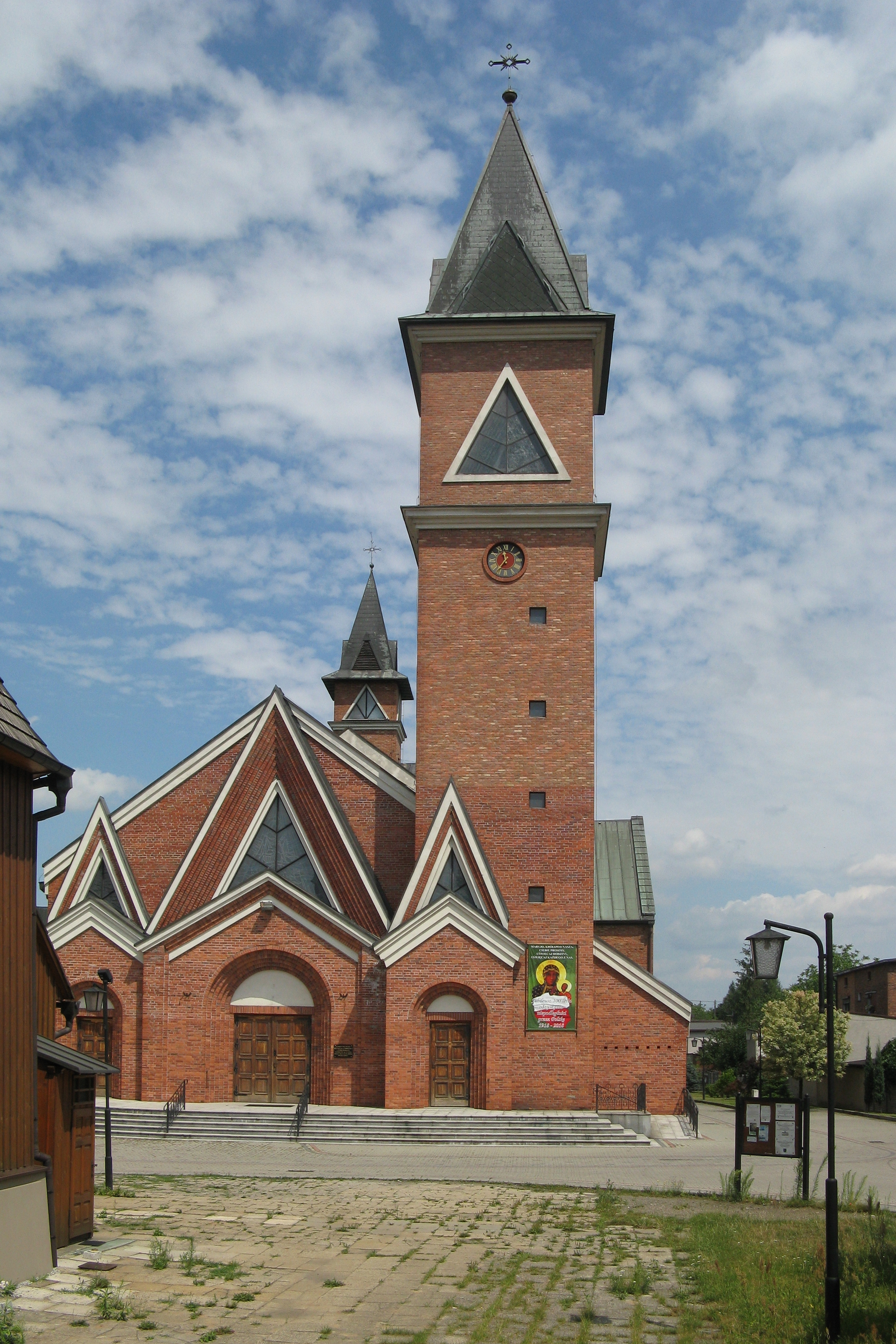 New church of st. Lawrence in Bobrowniki, Poland.